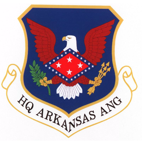 Arkansas Air National Guard emblem